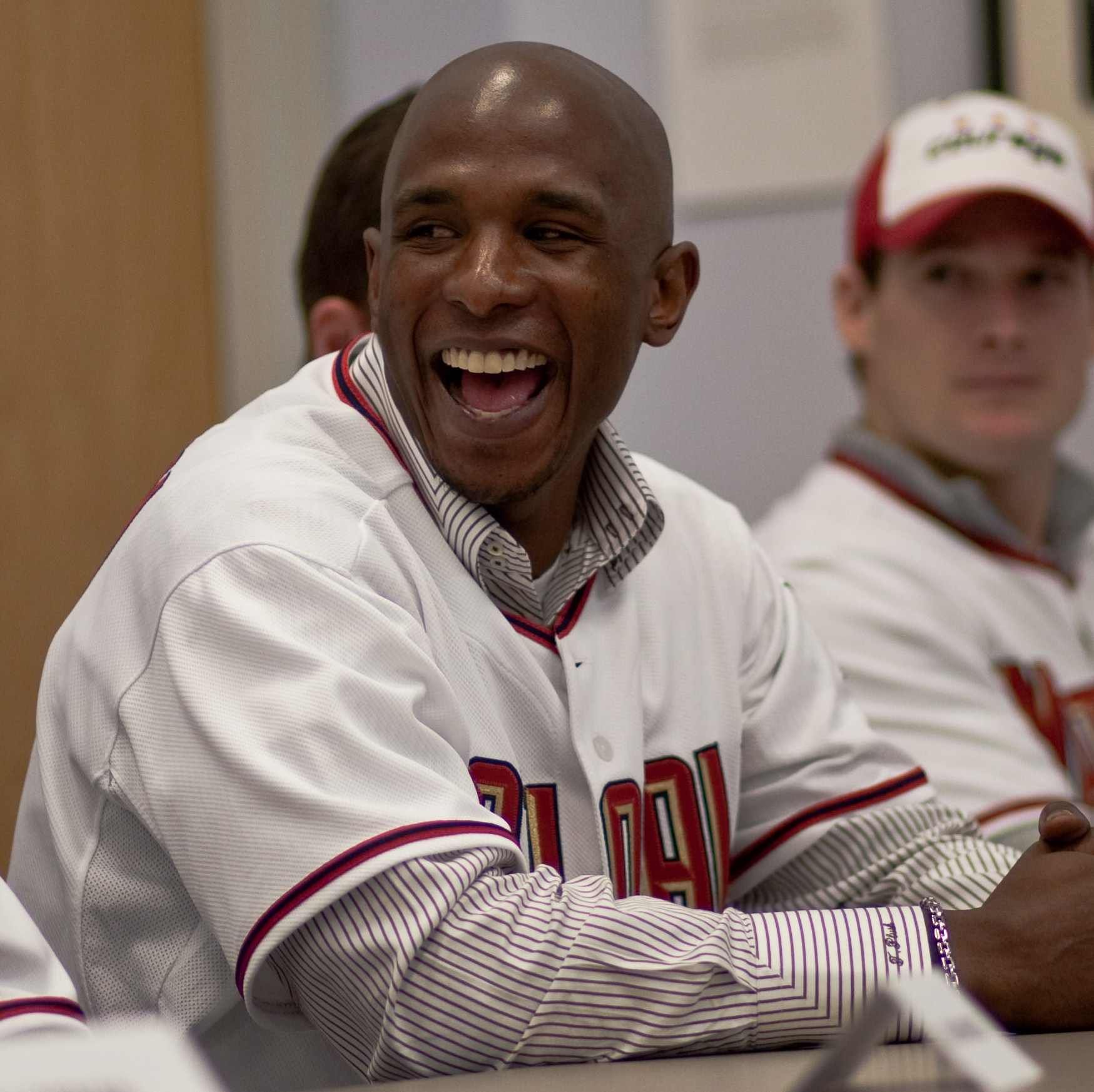 Nyjer Morgan